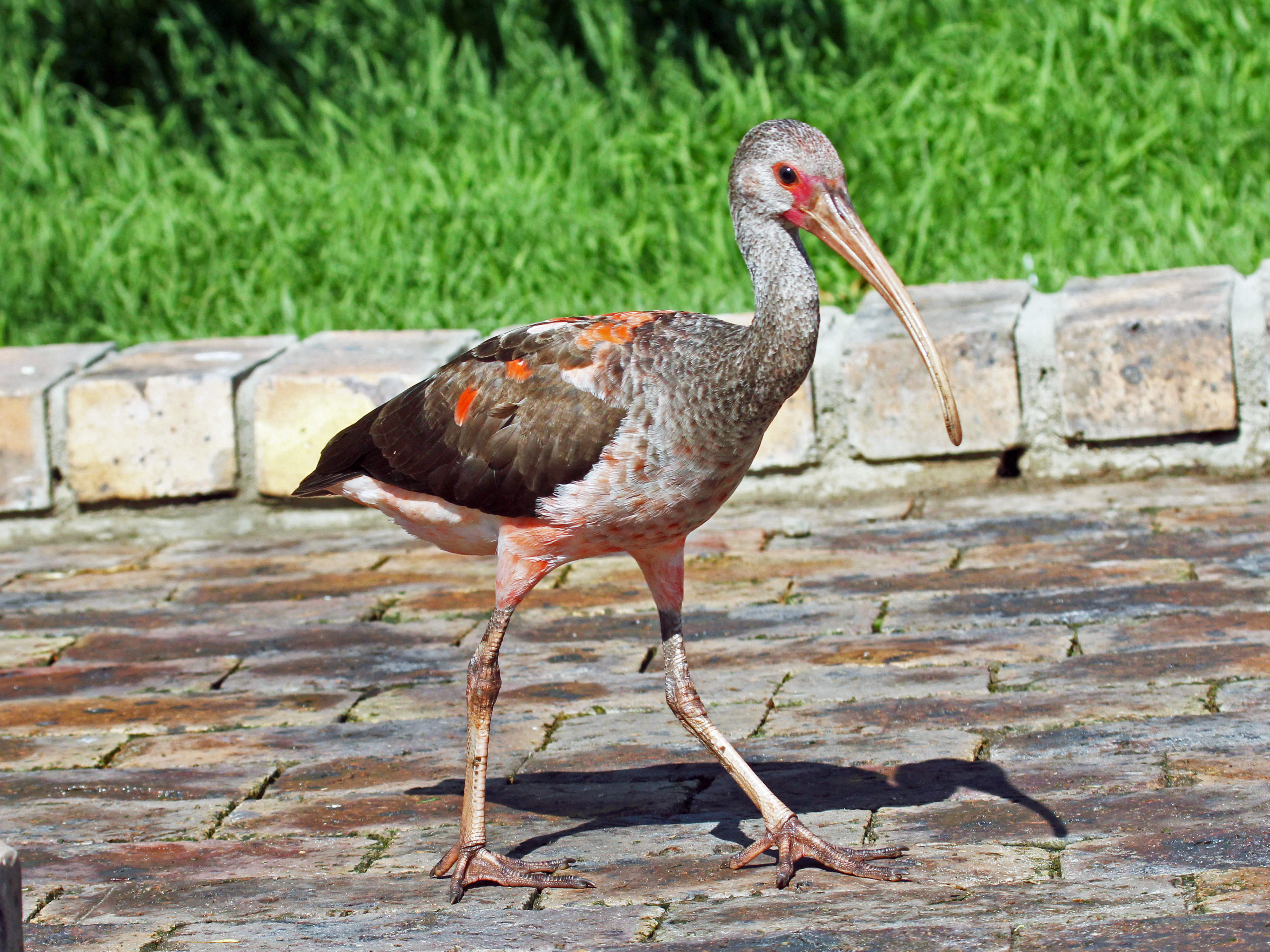 Juvenile Scarlet Ibis (Eudocimus ruber) - Birds of Eden, South Africa